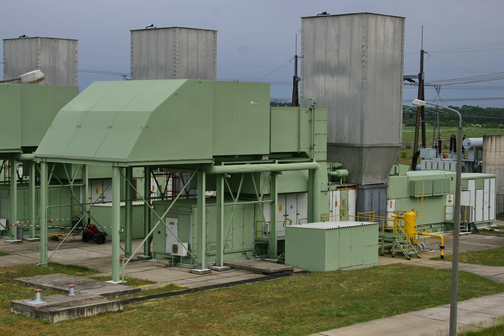 General Electric MS6001B gasturbine A3 at the powerplant Thyrow